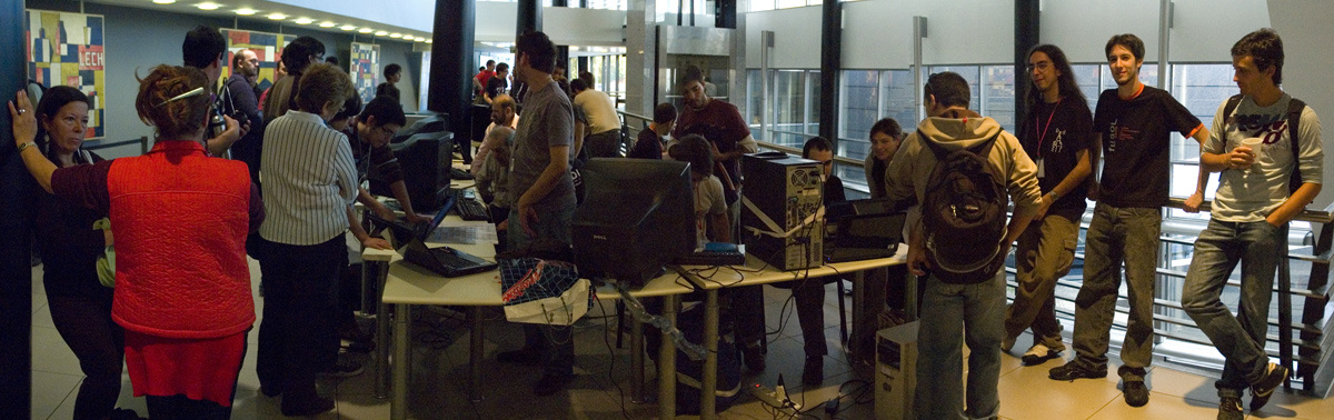 FLISOL 2009 Montevideo Uruguay